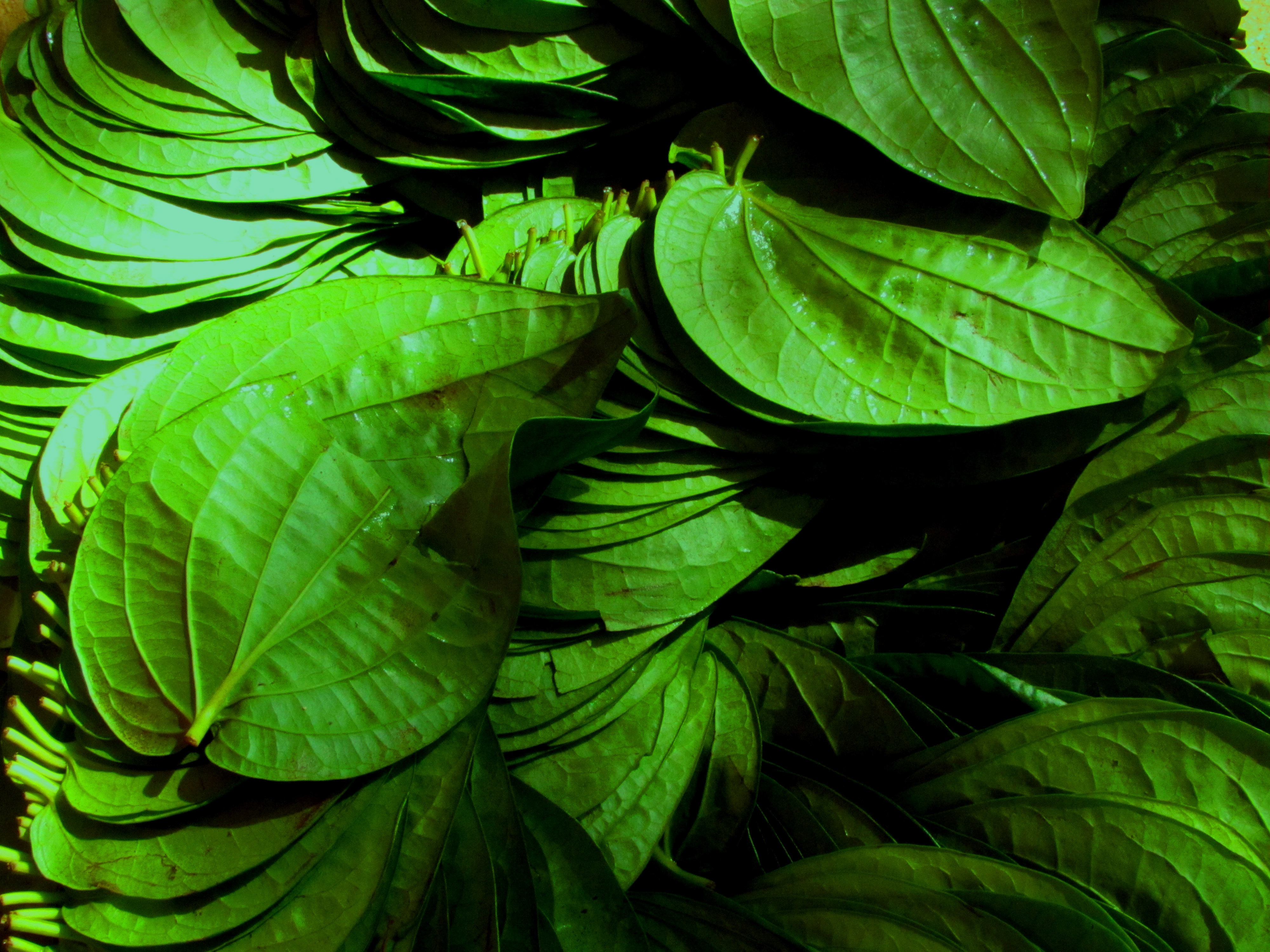 Betel leasfs for sale